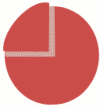 WW2 divisional patch (Quarter circle) for the British 4th Infantry Division.